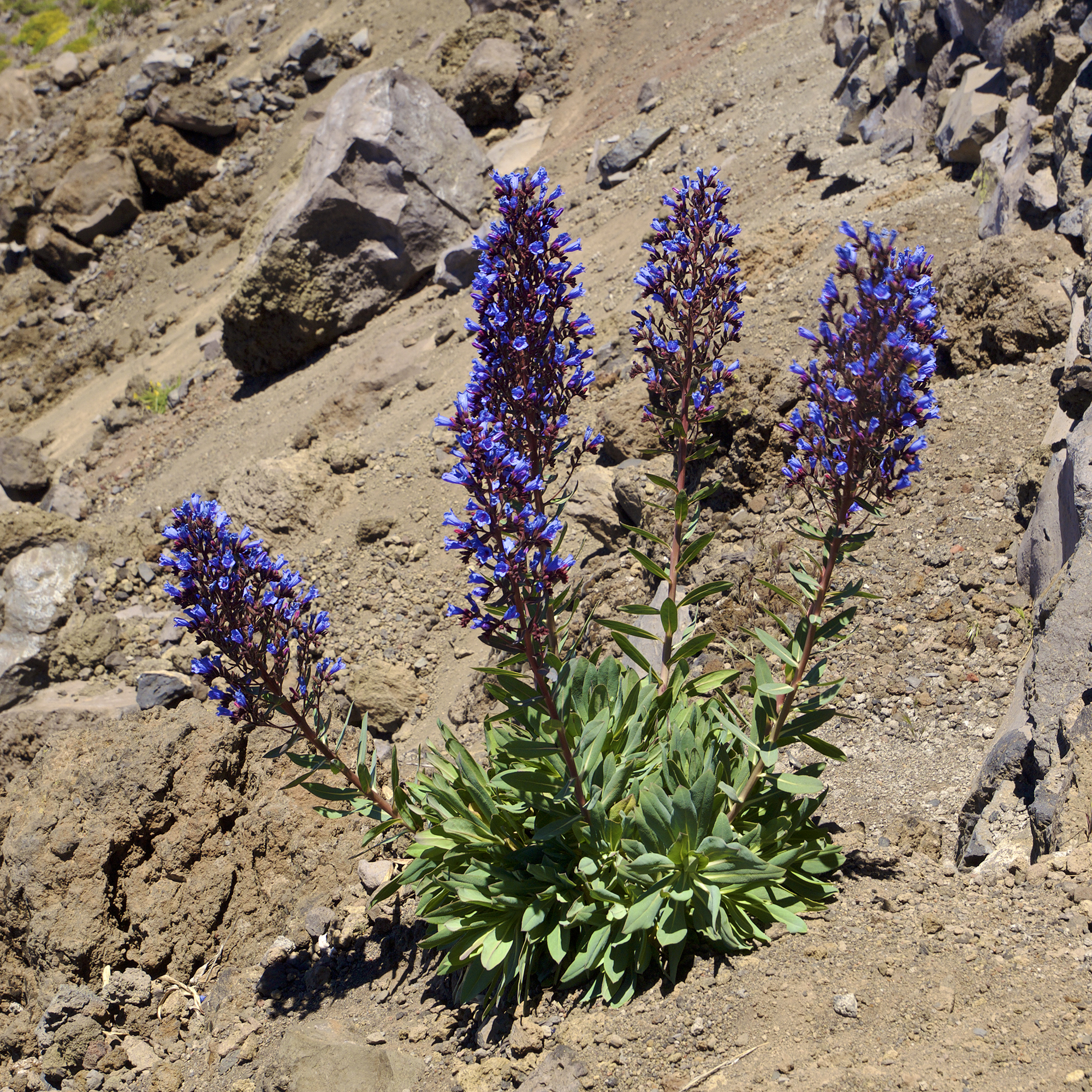 Echium gentianoides, La Palma, Canary islands, Spain